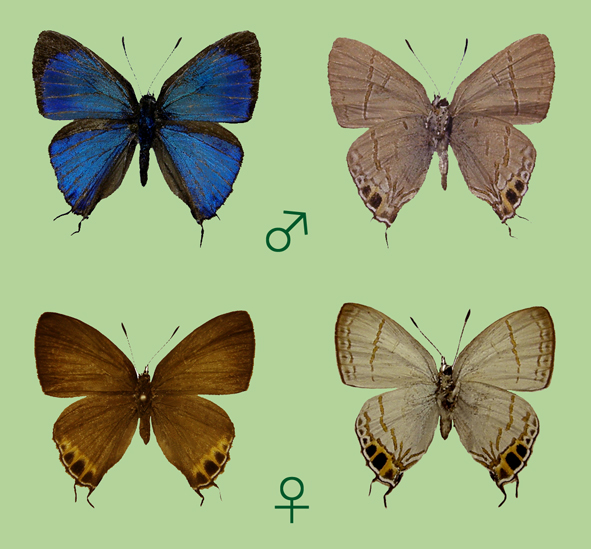 Hypolycaena shirozui, male nd female